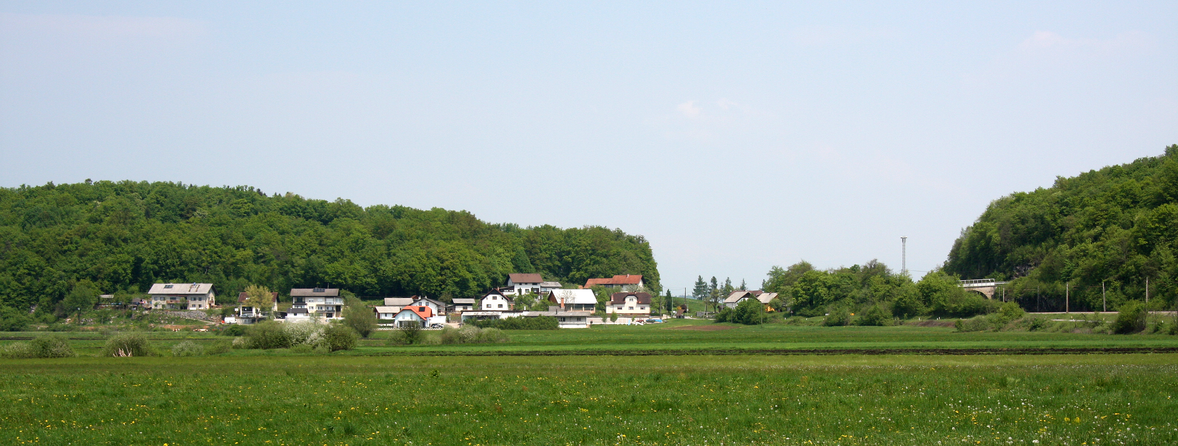 A part of Prevalje pod Krimom, a village in Brezovica municipality, Slovenia.